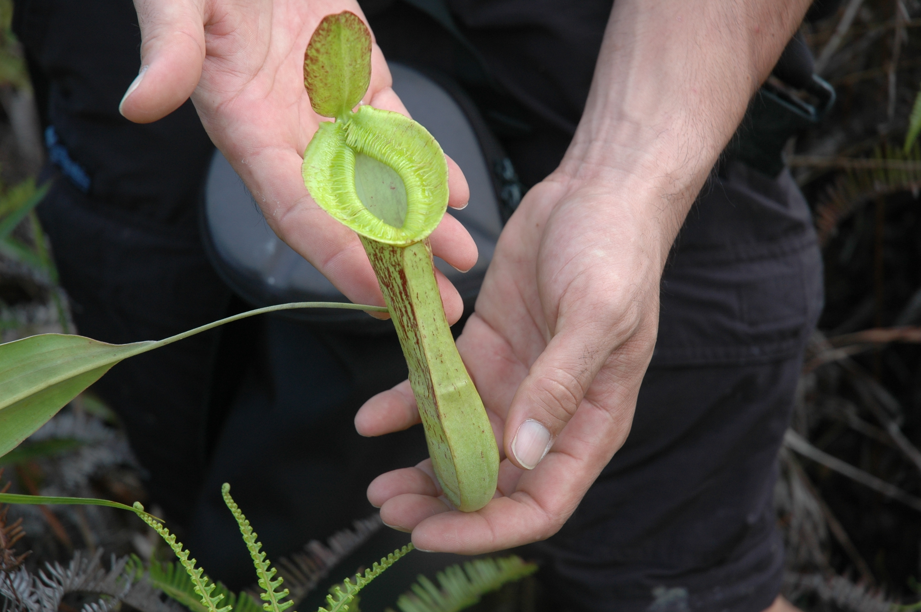 Nepenthes mirabilis var. echinostoma Miri roadside by Jeremiah Harris